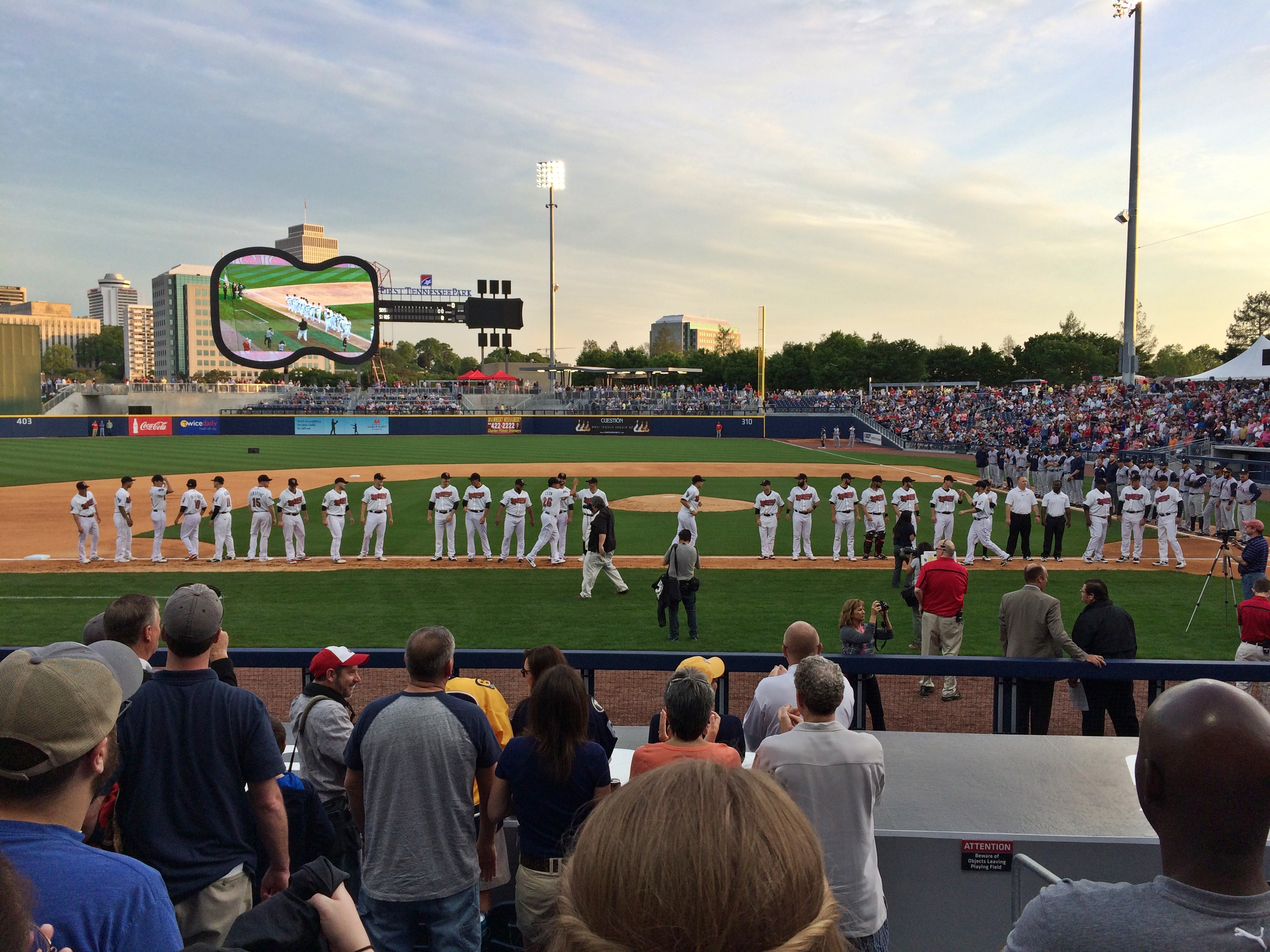 Players from the Nashville Sounds and Colorado Springs Sky Sox line up prior to the first game at First Tennessee Park on April 17, 2015